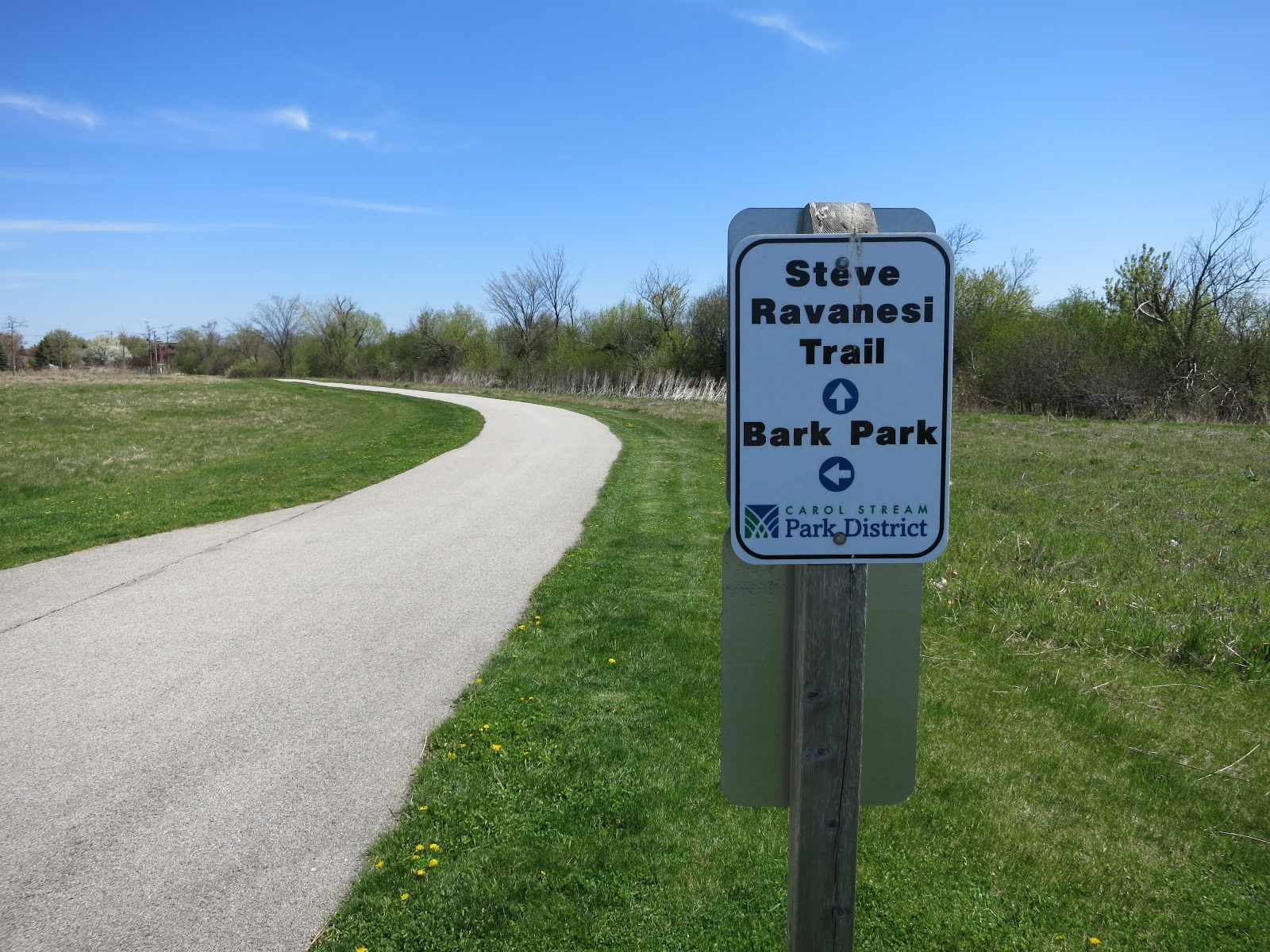 Photo shows Carol Stream Park District sign identifying the Steve Ravanesi Trail and the Bark Park. The location is about 200 yards north of Hwy 64. View is toward the north.